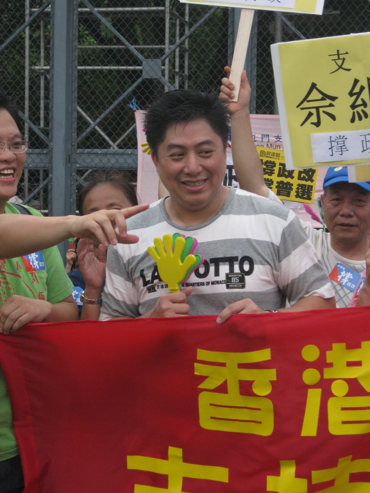 Wilson Shea attending a campaign of supporting 2012 Political Reform.